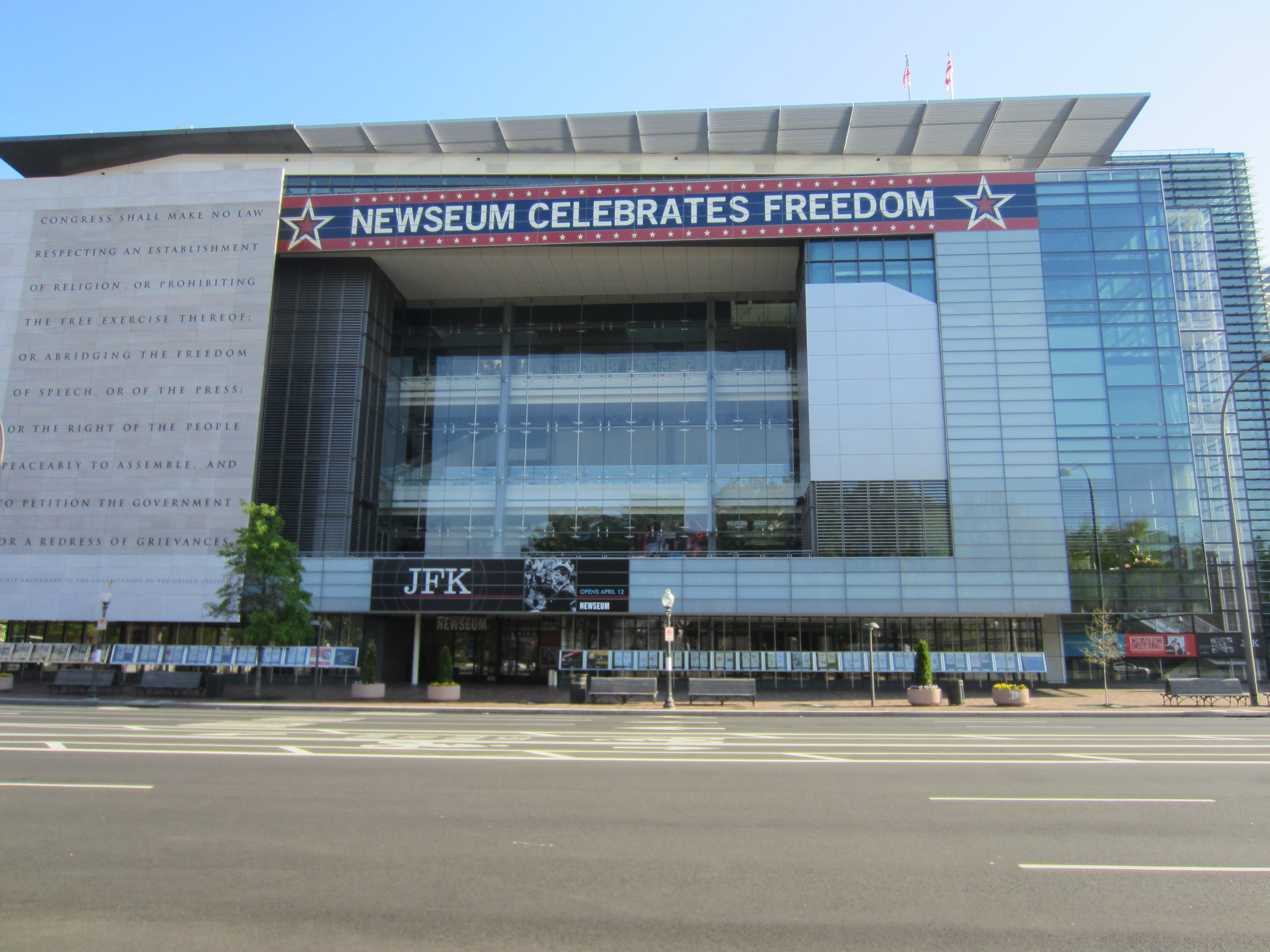 Newseum, Washington, D.C. (2013)